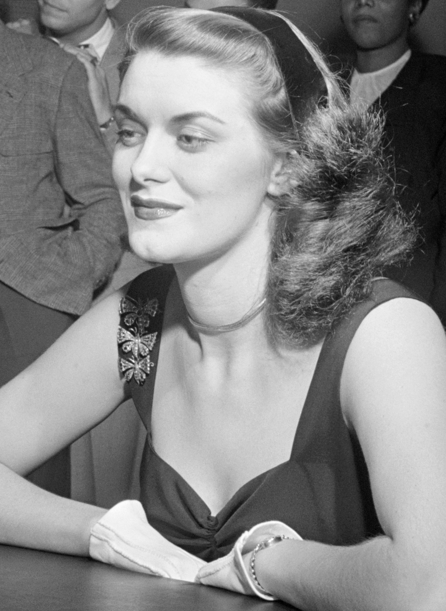 Tommy Dorsey (out of frame) interviews the English pigeon, Beryl Davis, for his first disc jockey stint, with such names as Georgie Auld, Ray McKinley, Mary Lou Williams, Josh White and others.